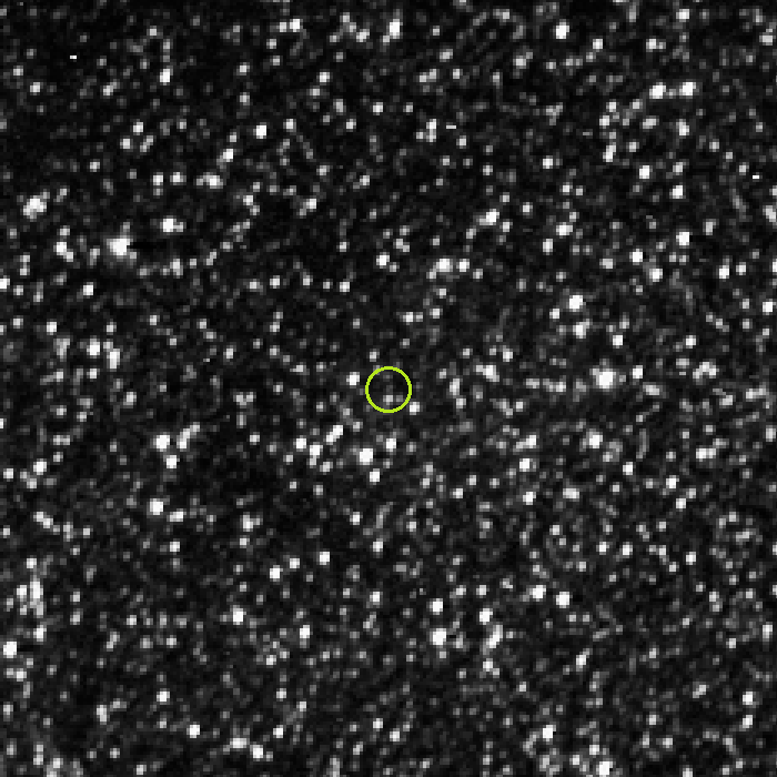 In January 2019, the New Horizons spacecraft imaged the Kuiper belt object 2014 PN70 from a distance of 93 million km (58 million miles).